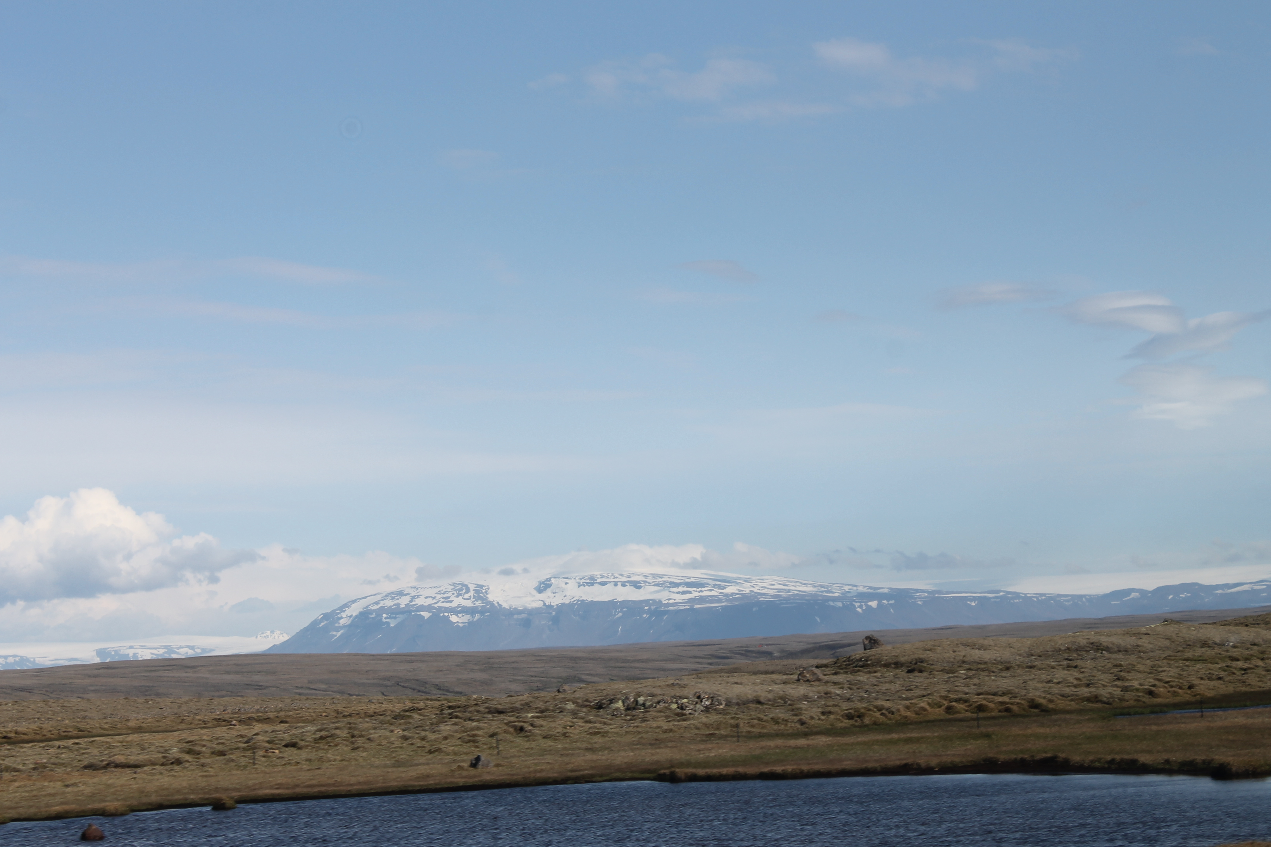 The glacier Eiríksjökull, Western Iceland, from Holtavörðuheiði.